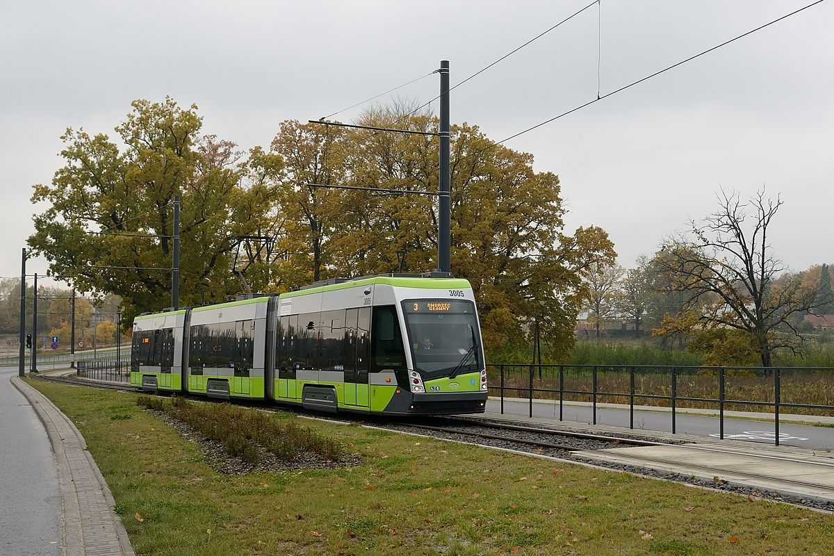 Solaris Tramino 3005 in Olsztyn